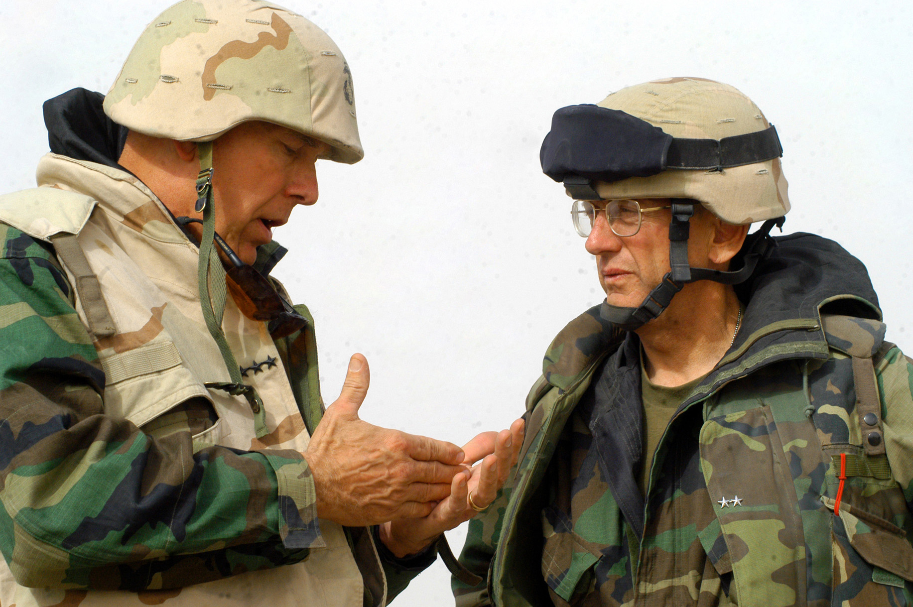 Lt. Gen. James T. Conway [left] and Maj. Gen. James N. Mattis consult with one another in Central Iraq, March 30. The generals, who command I Marine Expeditionary Force and 1st Marine Division respectively, are among the most senior leaders in Operation Iraqi Freedom. Gen. Conway has more than 60,000 Marines, Sailors, Soldiers and British forces under his control. Gen. Mattis is responsible for the primary Marine ground combat element. (Official USMC photo by Sgt. Joseph R. Chenelly)